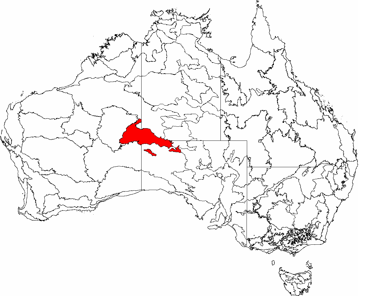 This is a map of the Interim Biogeographic Regionalisation of Australia (IBRA), with state boundaries overlaid. The Central Ranges region is shown in red.